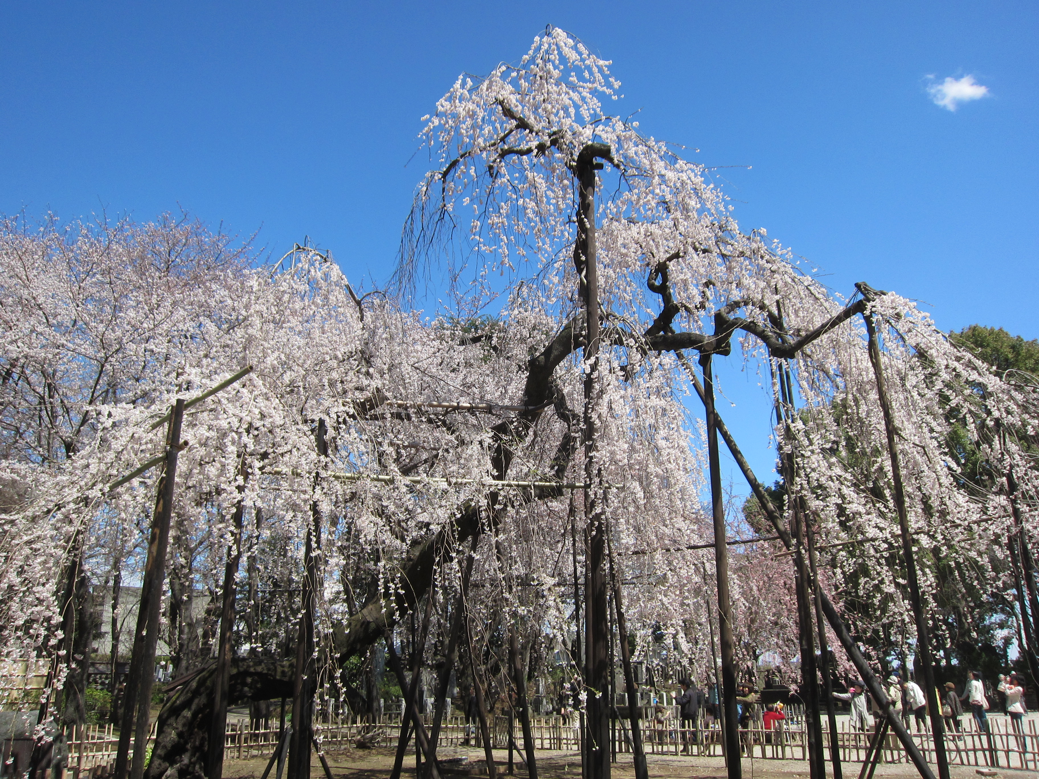 Mamasan Guhoji Fushihimezakura